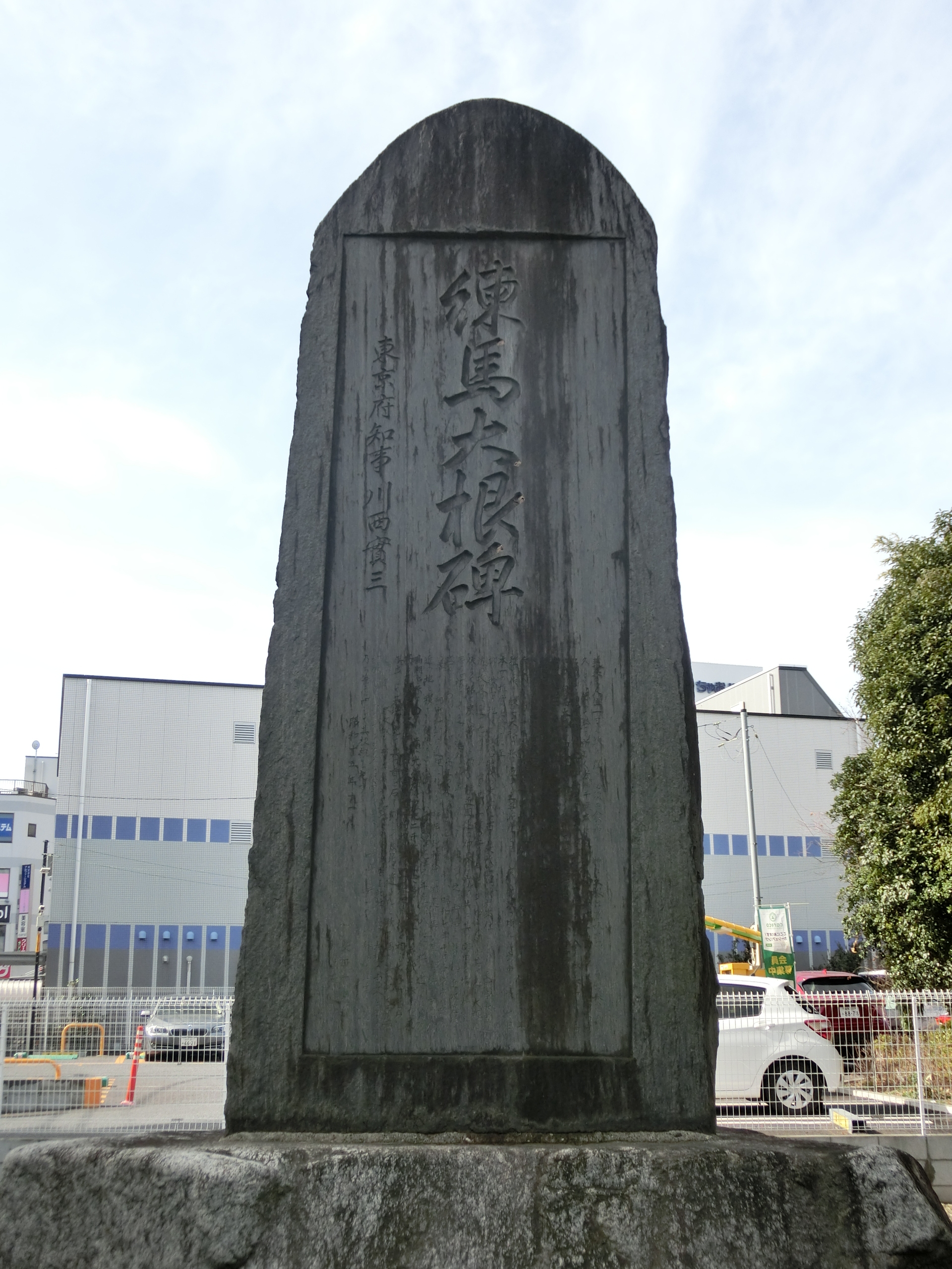 Nerima Daikon Monument